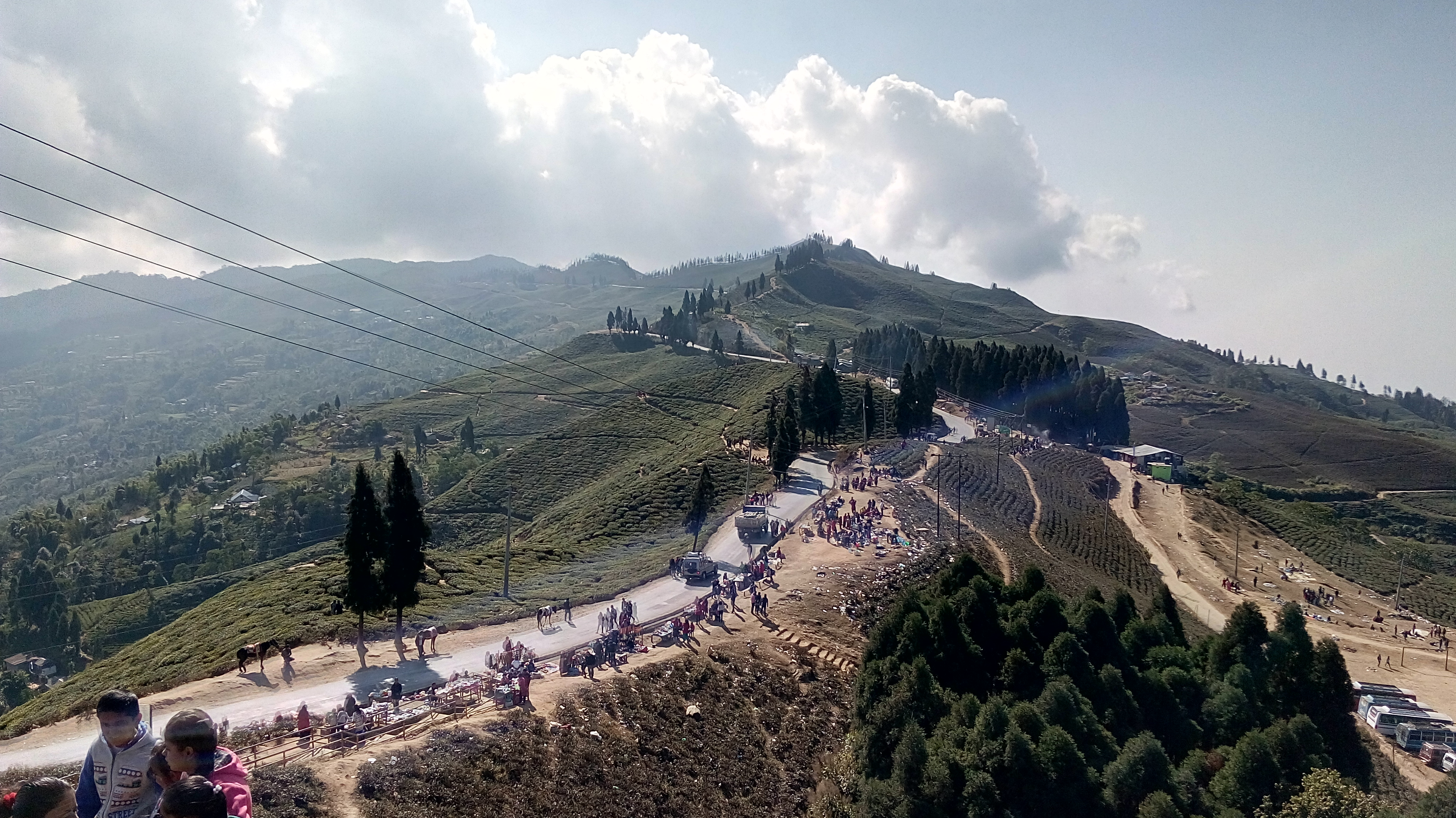 The roadways looks awesome from above tower